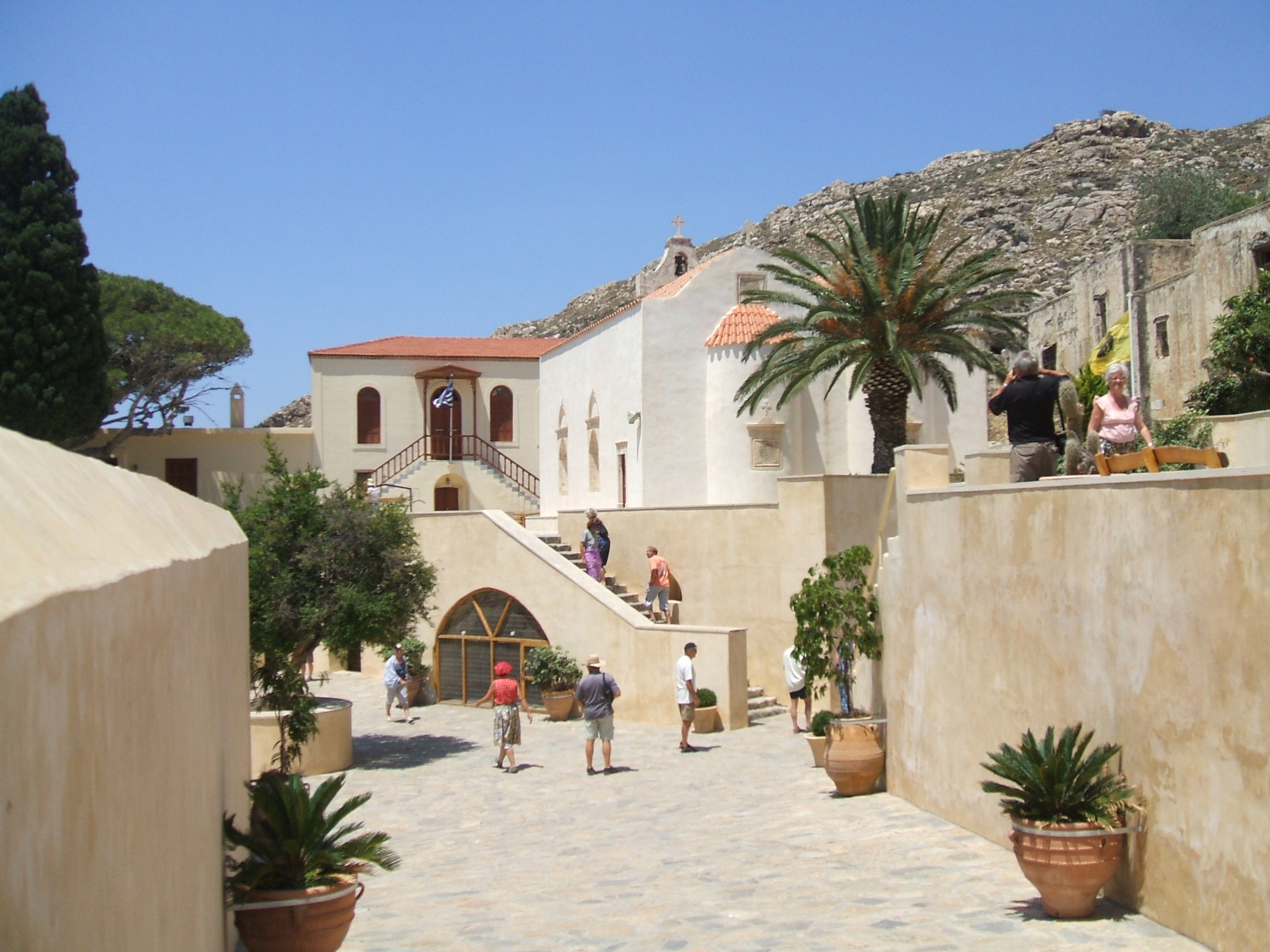 Photograph of buildings at the Preveli Monastery in Crete, Greece in June 2007. Photo taken by Ghmyrtle 10:25, 29 June 2007 (UTC)